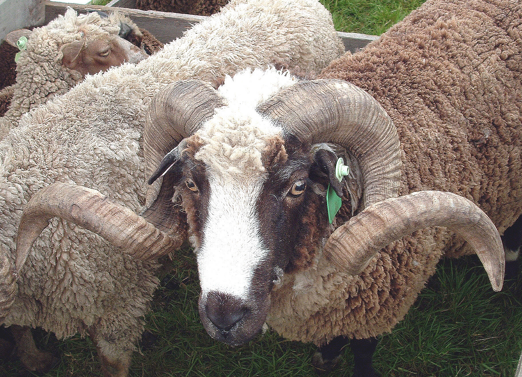 Arapawa ram, descendant of Merino sheep left on Arapawa Island in New Zealand's Marlborough Sounds in the 1860s. Although originally feral, this specimen is shown by the New Zealand Rare Breeds Society. User:Moriori took this photo at the 160th anniversary Waimate North pastoral show in 2006, and releases it PD